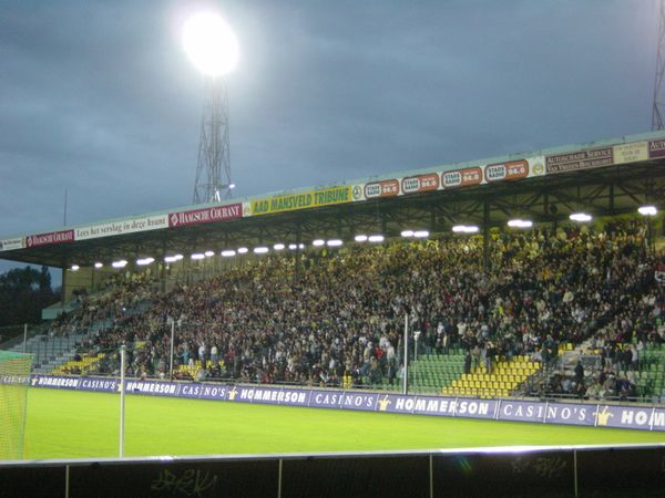 Zuiderpark